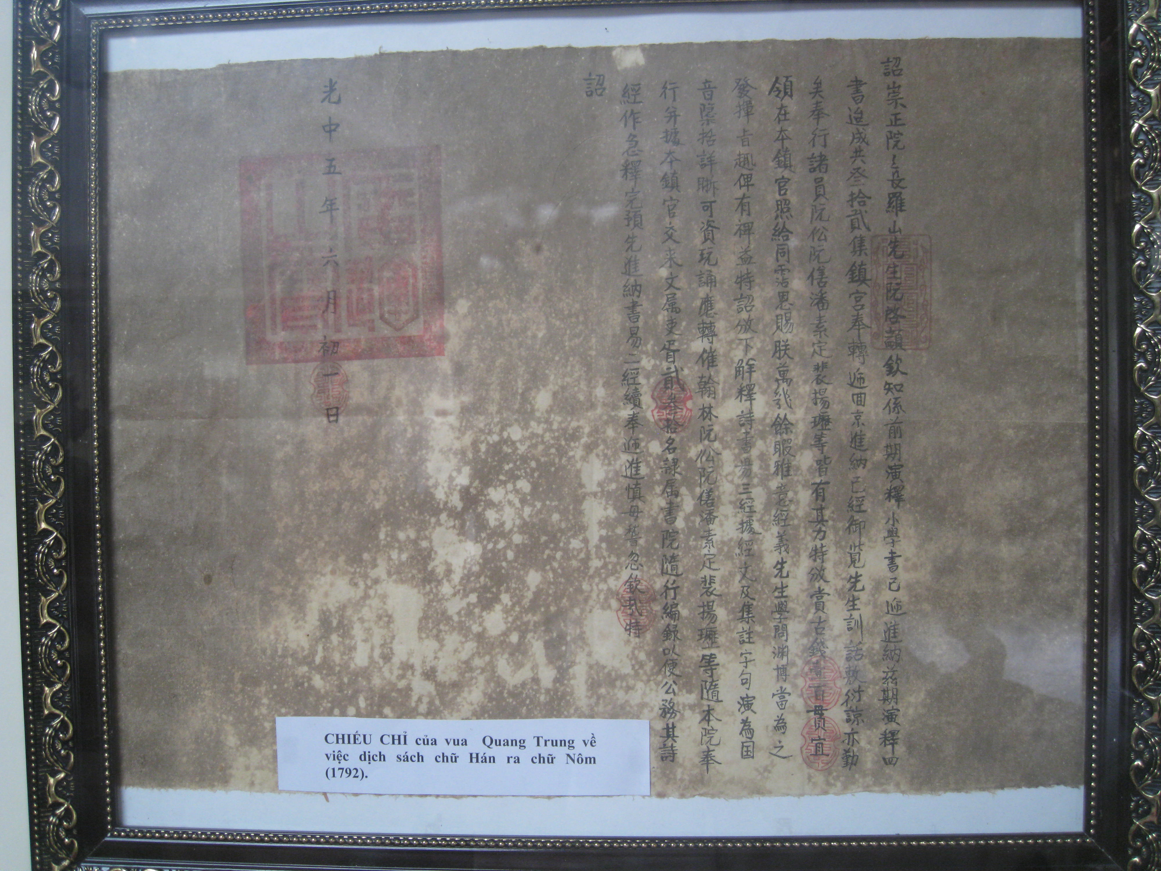 Royal proclamation by Quang Trung on translating Chinese into Nôm textbooks.